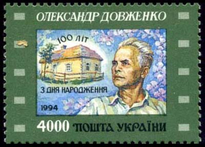 Stamp of Ukraine